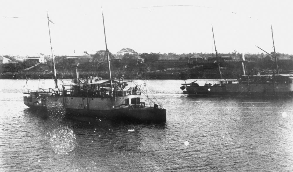 Two gunboats on the river at Bundaberg, Queensland, ca. 1898 Paluma in the foreground and Gayundah on the right. (Description supplied with photograph.).